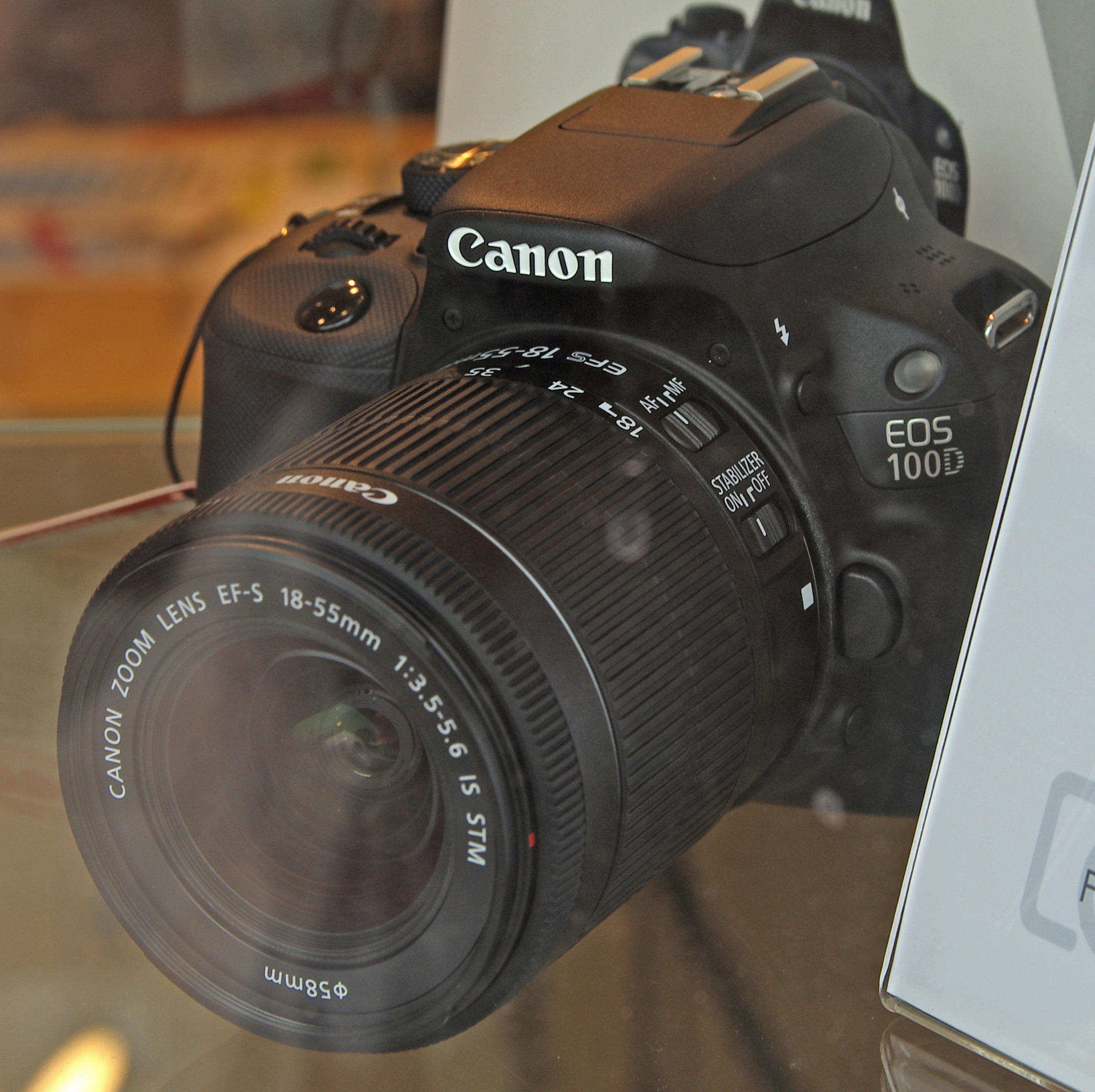 Canon EOS 100D DSLR camera with Canon EF-S 18-55mm f/3.5-5.6 IS STM lens in a show-case.